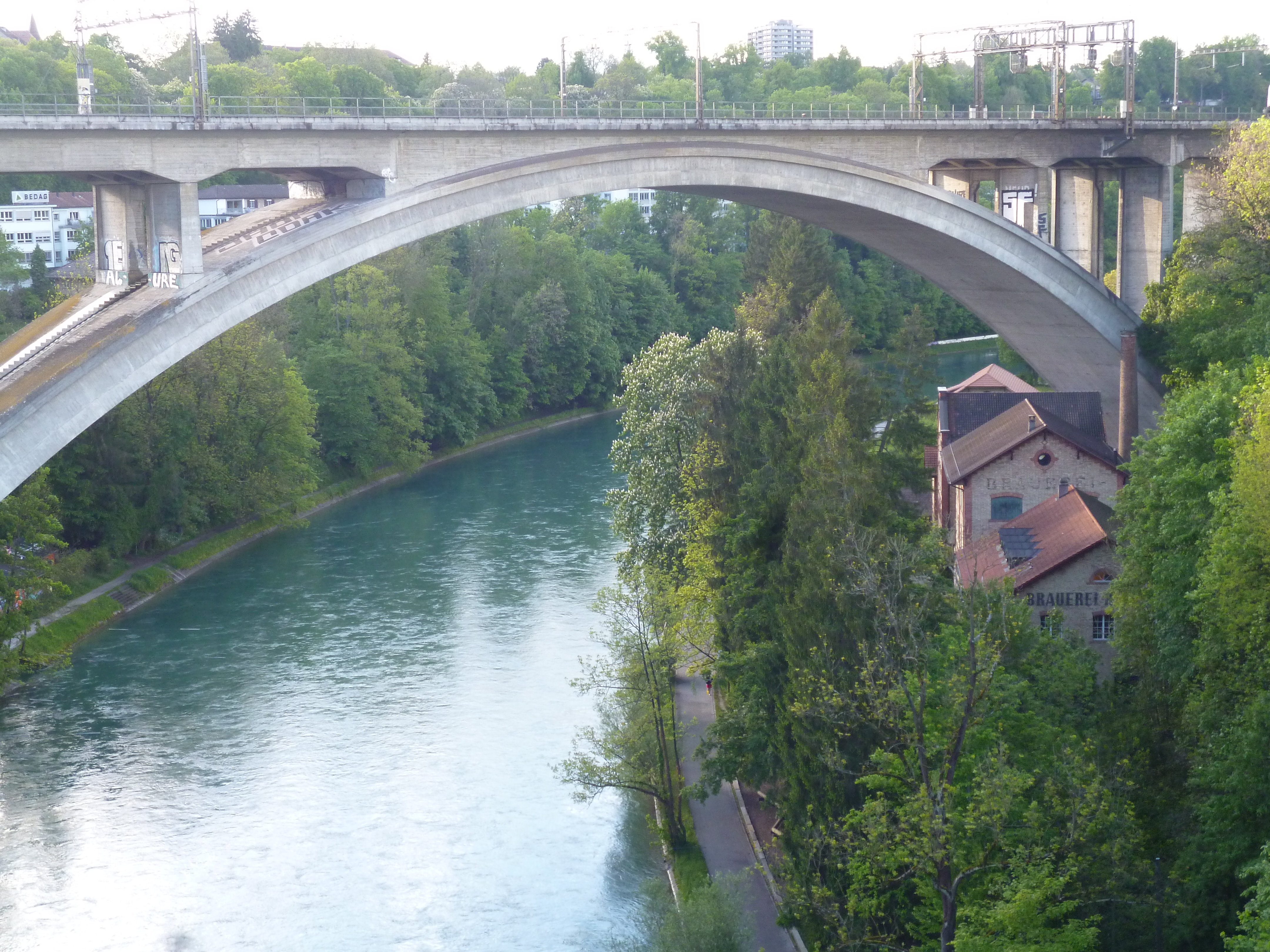 Views of Biel